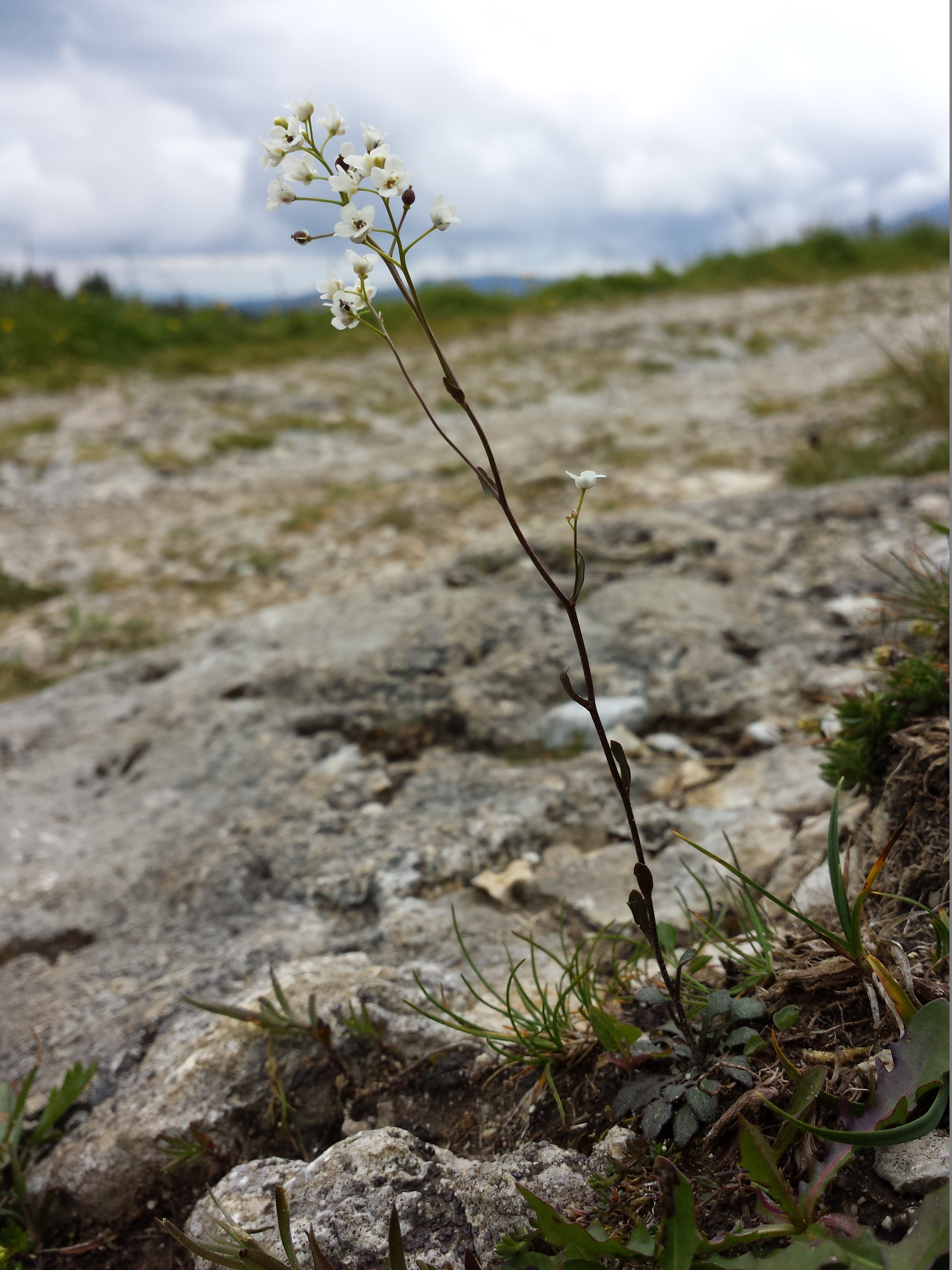 Habitus Taxonym: Kernera saxatilis ss Fischer et al. EfÖLS 2008 ISBN 978-3-85474-187-9 Location: Rax plateau, district Neunkirchen, Lower Austria - ca. 1600 m a.s.l. Habitat: rock